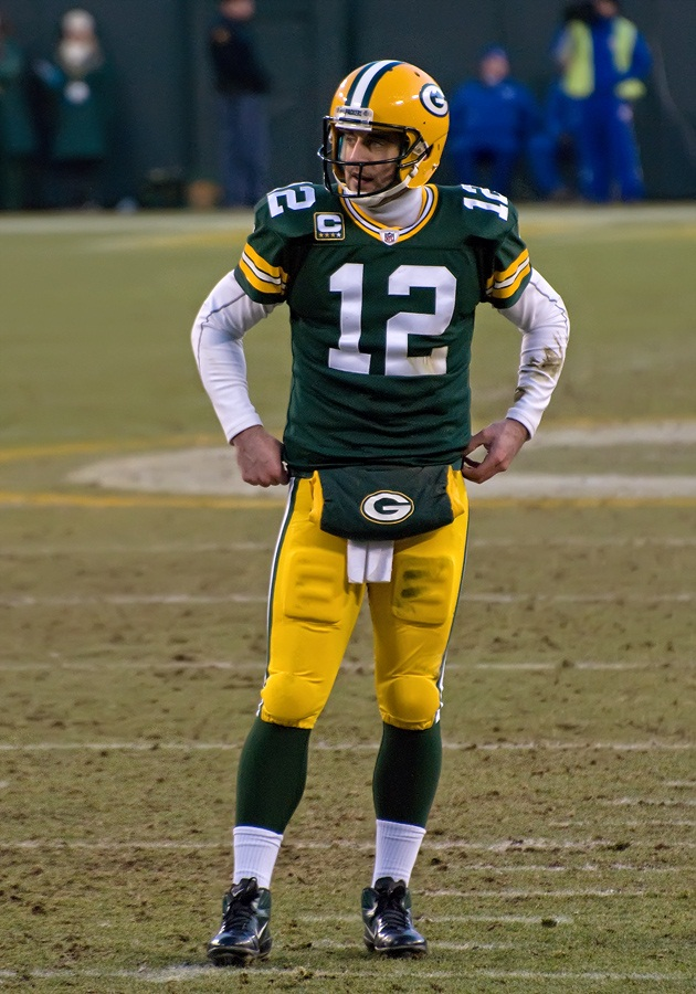 New York Giants vs. Green Bay Packers in the NFC Divisional Playoff Game at Lambeau Field on January 15, 2012. Photo by Mike Morbeck.